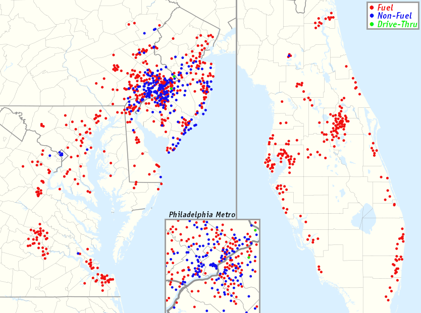 Geographic footprint of Wawa (company), as of 27 December 2019. Map is split screen to cover their location in both the Northeastern United States and the state of Florida. This includes Wawa's 665 fuel locations, and 226 non-fuel locations. See also; Wawa fuel-locations footprint as of December 2019 Wawa non-fuel-locations footprint as of December 2019